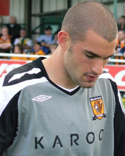 Boaz Myhill